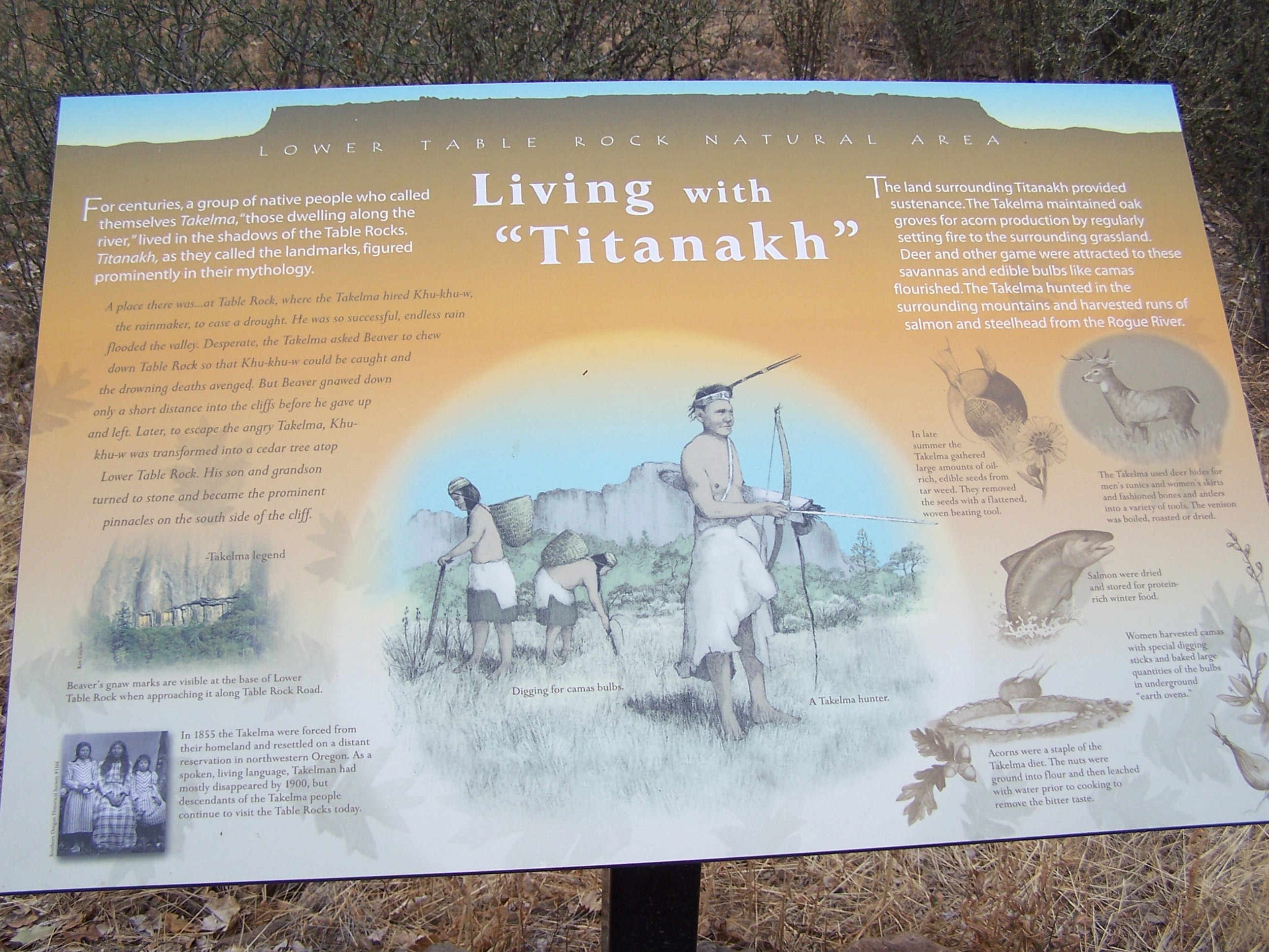 The fourth interpretive sign on the Lower Table Rock Trail.